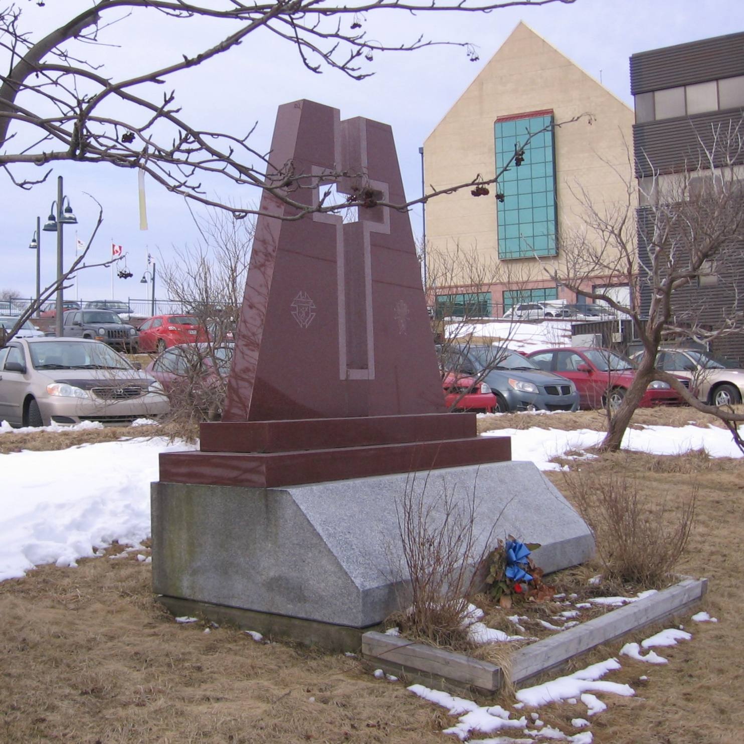 Memorial to the Knights of Columbus Hostel fire, December 12, 1942 which occurred in St. John's Newfoundland